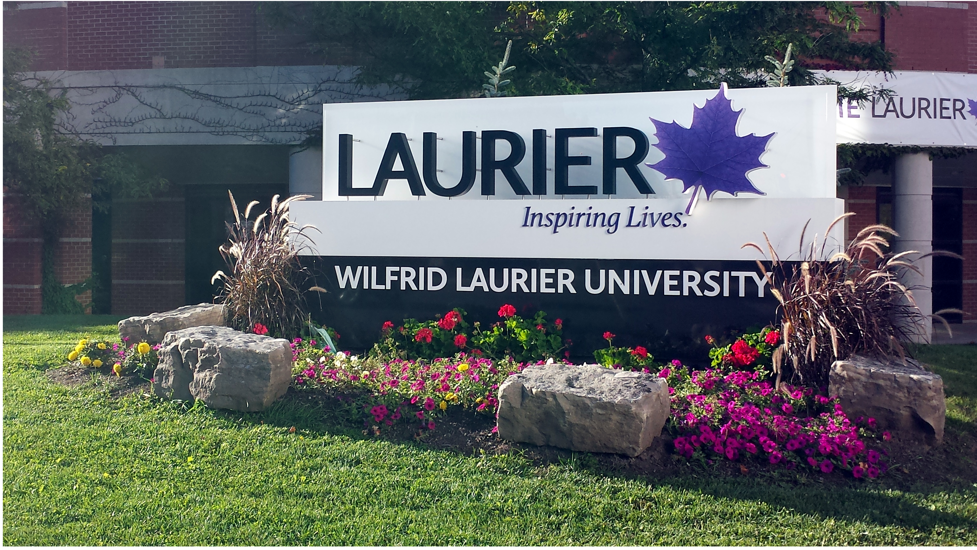 Picture of the Wilfrid Laurier University landmark signage at the southeast corner of the Waterloo campus, at the intersection of King St. North and Bricker Ave.